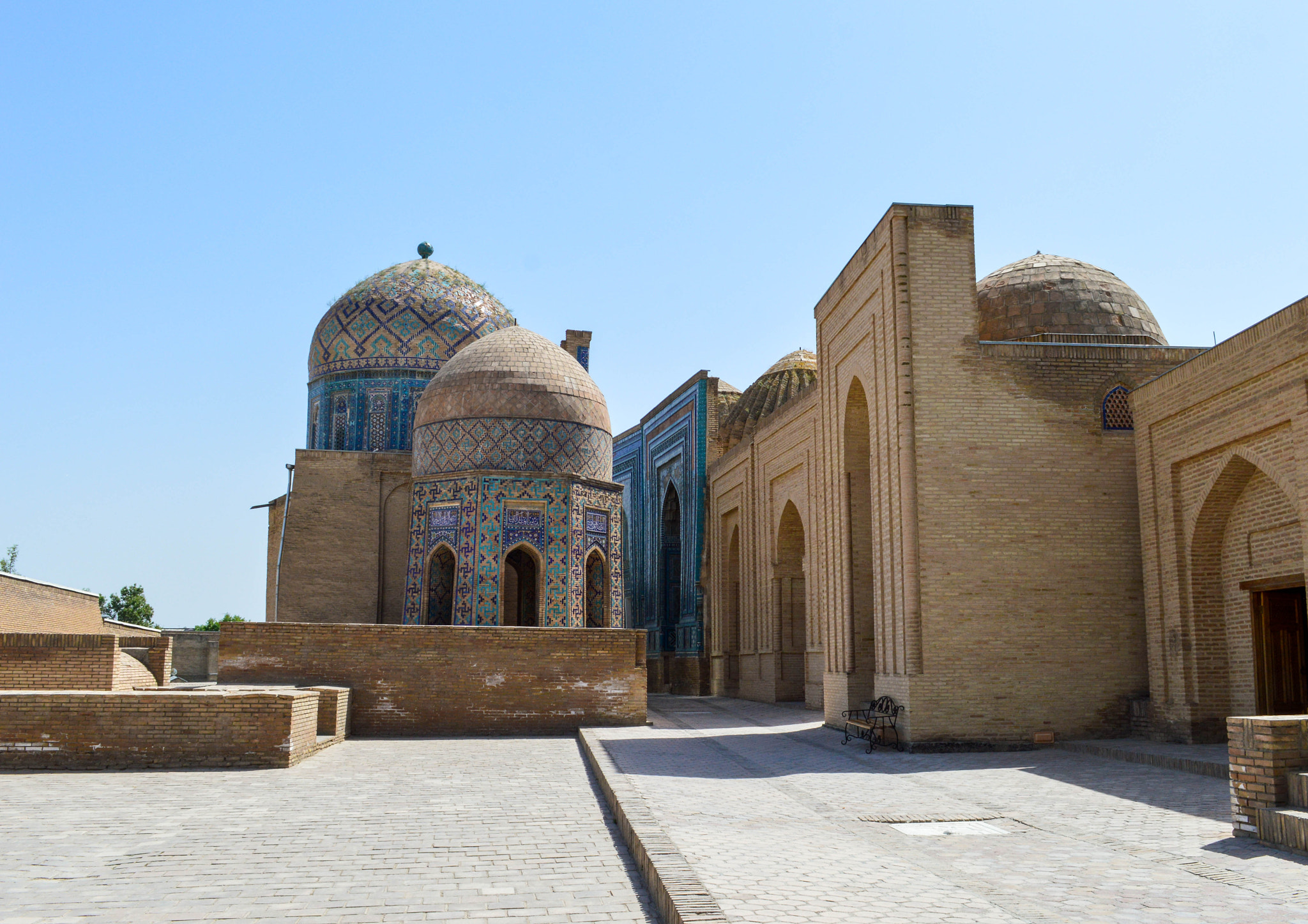 500px provided description: Shohi Zinda Ensemble [#sky ,#city ,#travel ,#religion ,#church ,#tower ,#old ,#tourism ,#architecture ,#temple ,#building ,#monument ,#arch ,#stone ,#ancient ,#outdoors ,#landmark ,#grave ,#mausoleum ,#no person]